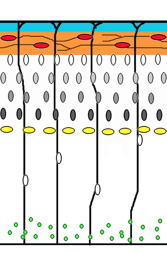 Corticogenesis in a brain of a mouse. Six cortical layers.